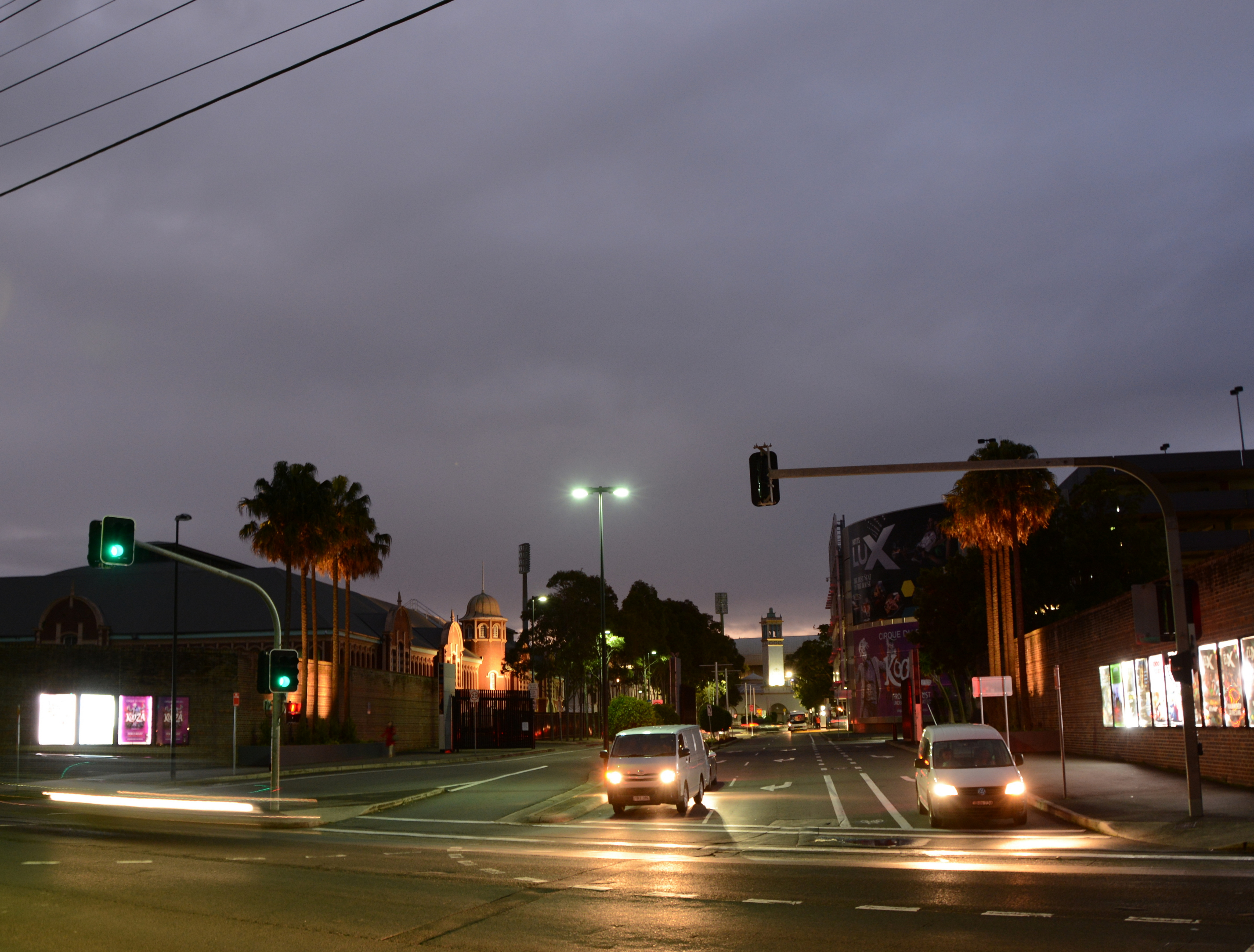 Fox Entertainment Centre, Moore Park, Sydney